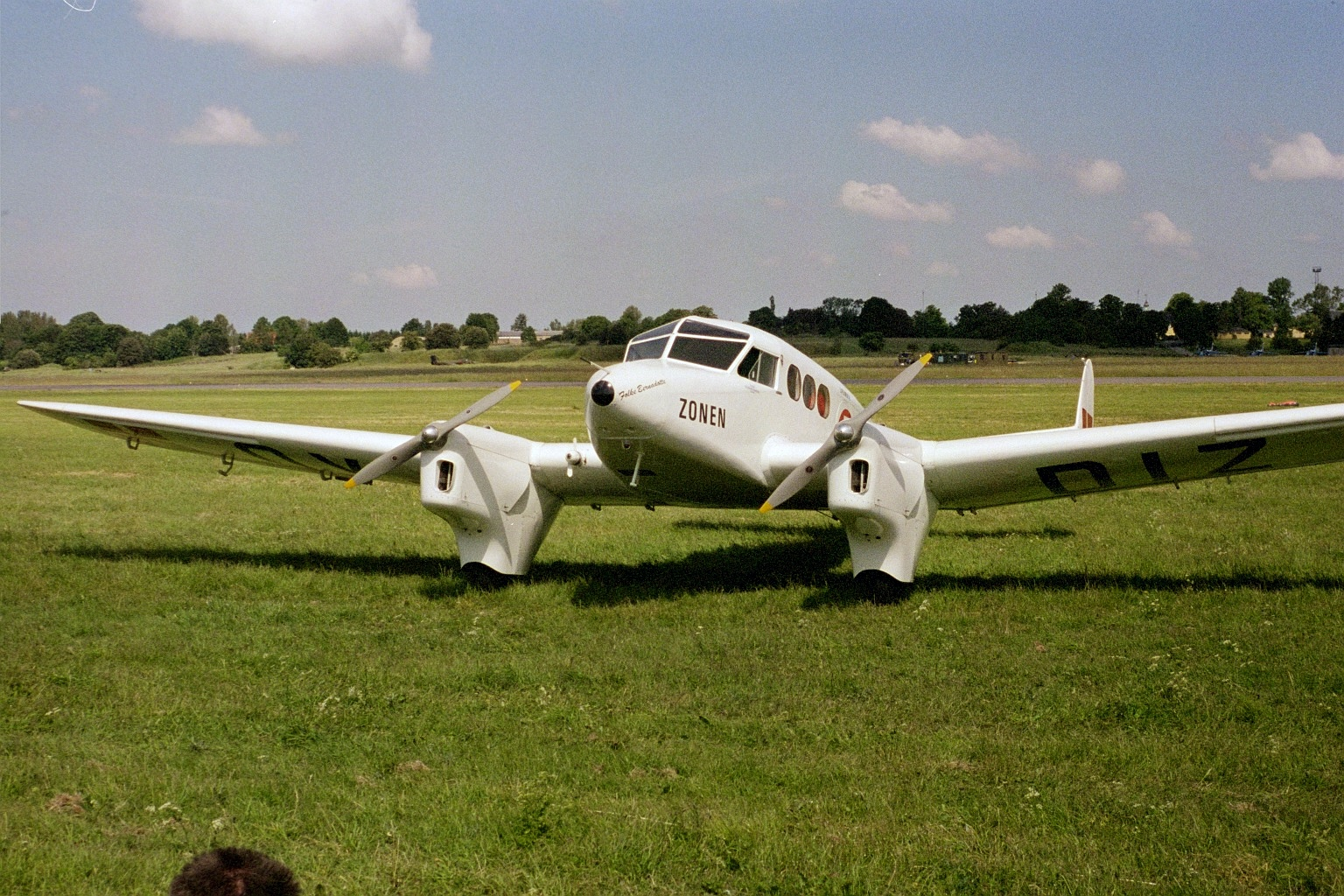 This is a KZ-IV. Registration OY-DIZ. Taken at Værløse airport in Denmark.